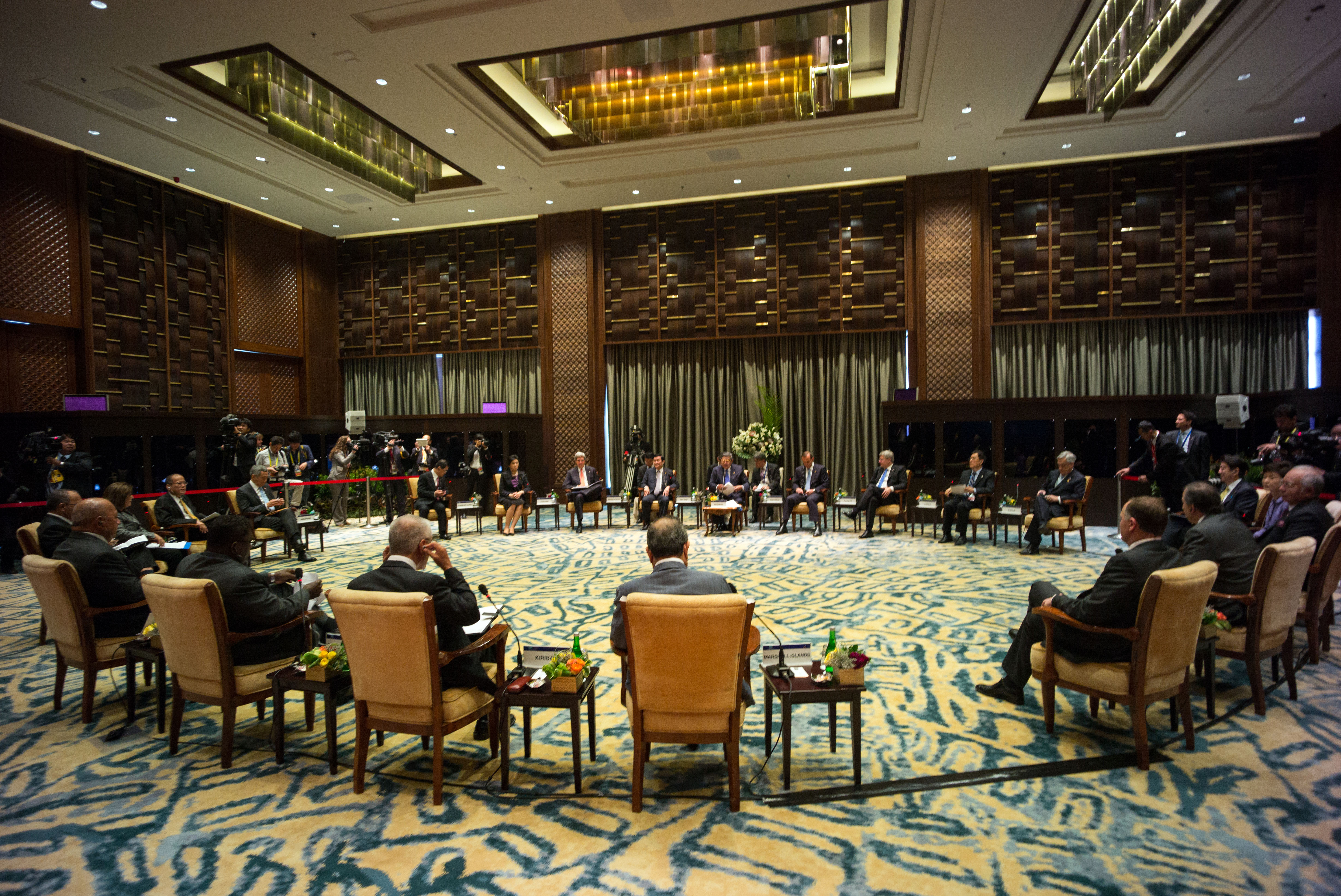 U.S. Secretary of State John Kerry meets with APEC Leaders before their informal session in Bali, Indonesia, on October 8, 2013. [State Department photo by William Ng/ Public Domain]